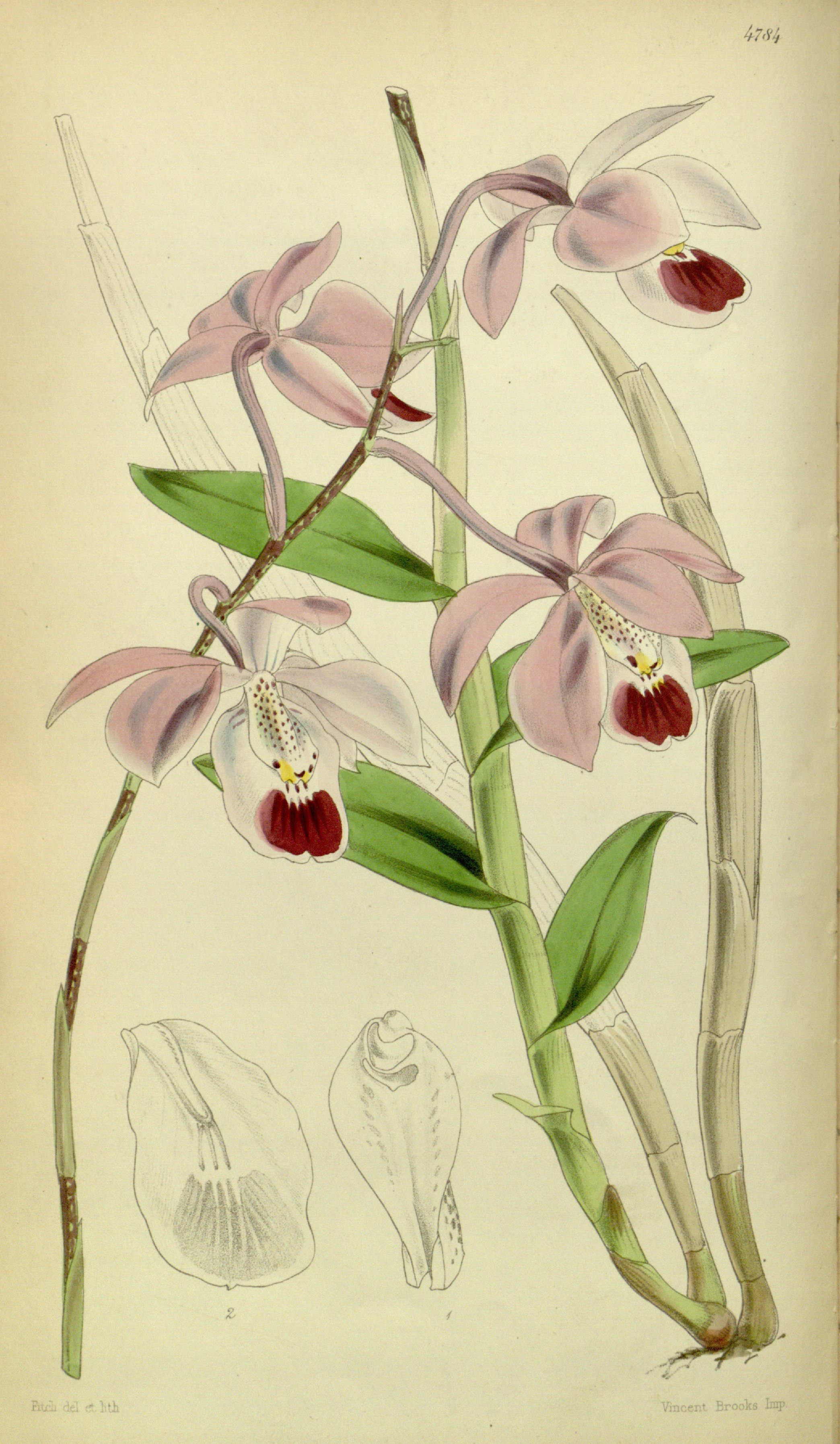 Illustration of Barkeria uniflora (as syn. Barkeria elegans)